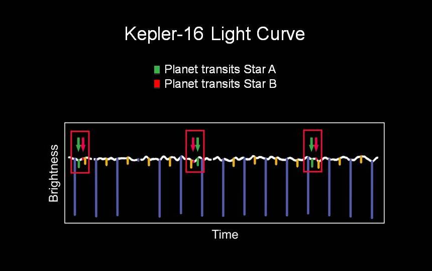 Aside from the eclipsing binary light curve, additional dimming in brightness events, called the tertiary and quaternary eclipses, reappear at irregular intervals of time, the signature of the planet.